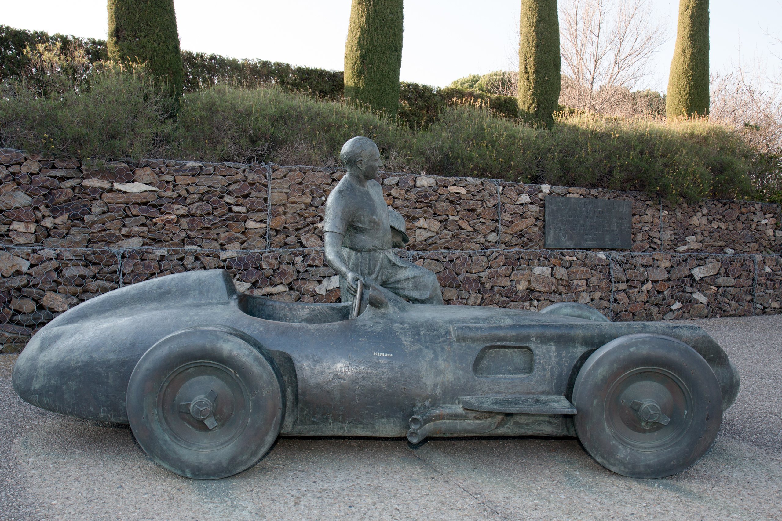 Statue of Juan Manuel Fangio in Catalonia Circuit.